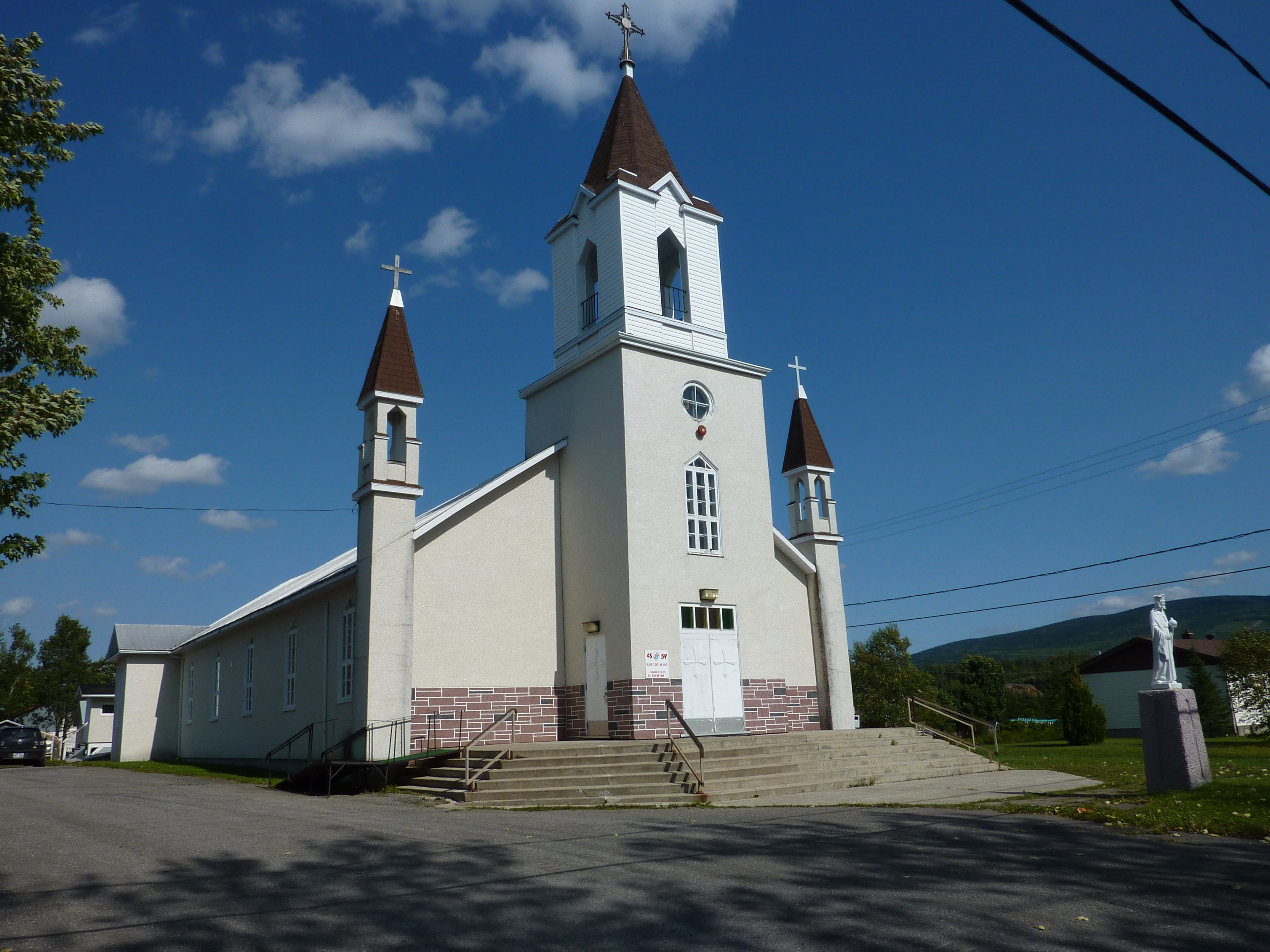 La Rédemption's Church, Qc